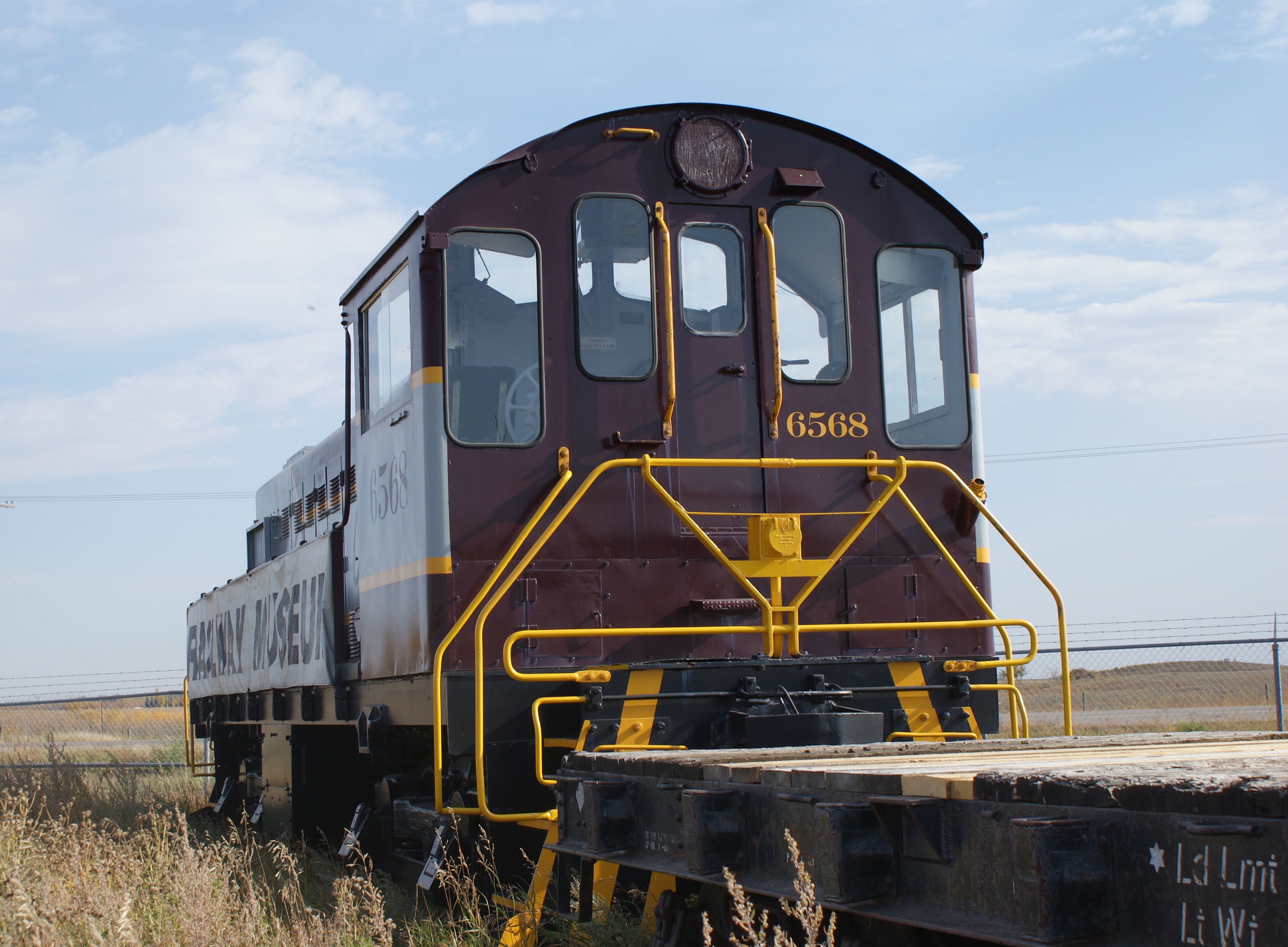 Saskatchewan Railway Museum Canadian Pacific Railway S3 diesel electric locomotive #6568 constructed in 1957 by Montreal Locomotive Works. According to the SRM, it has a 660 horsepower McIntosh and Seymore 539 diesel engine which operates a General Electric generator. The electricity produced is 600 volts direct current which turns four traction motors driving each axle. This locomotive was used in Sutherland CPR train yards. This particular railway locomotive is a light switcher and was used to switch cars between tracks in the Sutherland train yards.